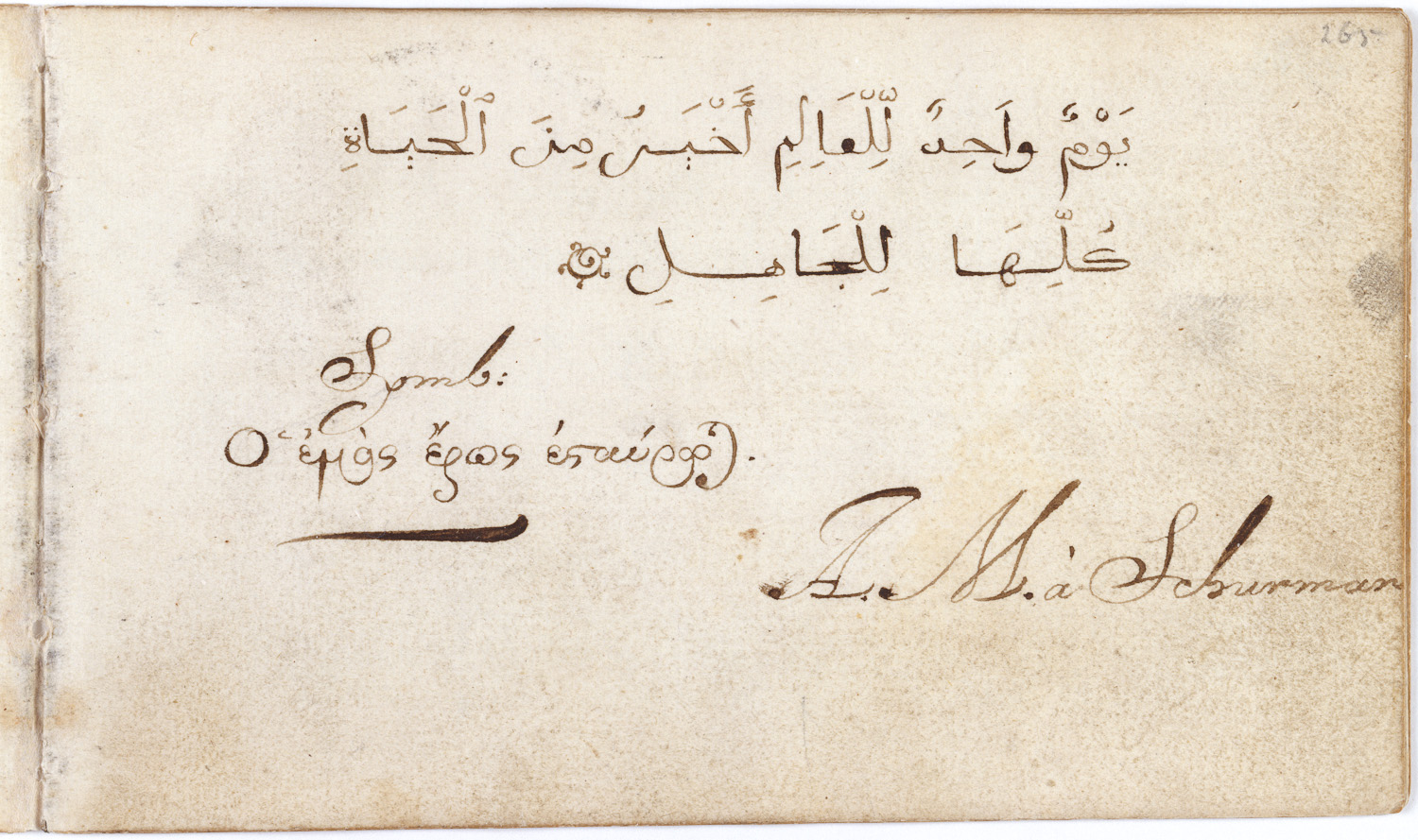 Arabic: One day is better for the scholar than a lifetime for the ignorant. Greek: My passion has been crucified. (See above for reference.) Page 265 of the Album amicorum Jacob Heyblocq KB131H26